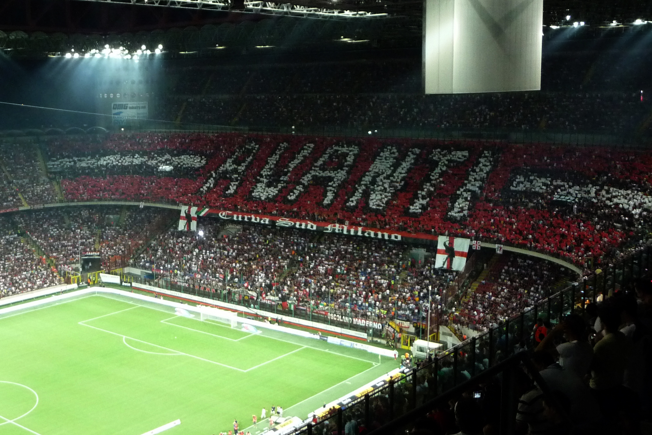 AC Milan fans choreography before the kick-off of the derby (AC Milan 0-4 Inter), Serie A, 29 August 2009 at Giuseppe Meazza Stadium.